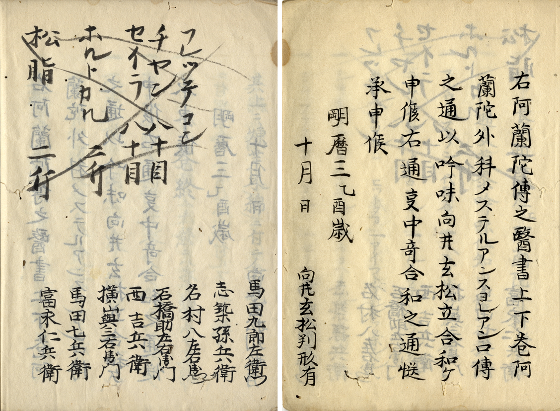 Postscript of a report on Western medicine compiled by the Japanese Confucian scholar Mukai Genshō in 1657 based on instructions given to him at the Dutch trading post Dejima (Nagasaki) by the German surgeon Hans Juriaen Hancke. The original report was repeatedly copied during the 17th and 18th century. This is a copy made by the physician Kawashima Ryōan during the 1660s. The postscript explains the background, gives the Names of Hancke and Mukai (including the locus sigilli) together with the names of the interpreters who had to verify the report. (Michel Collection, Kyushu University Medical Library, Fukuoka, Japan)